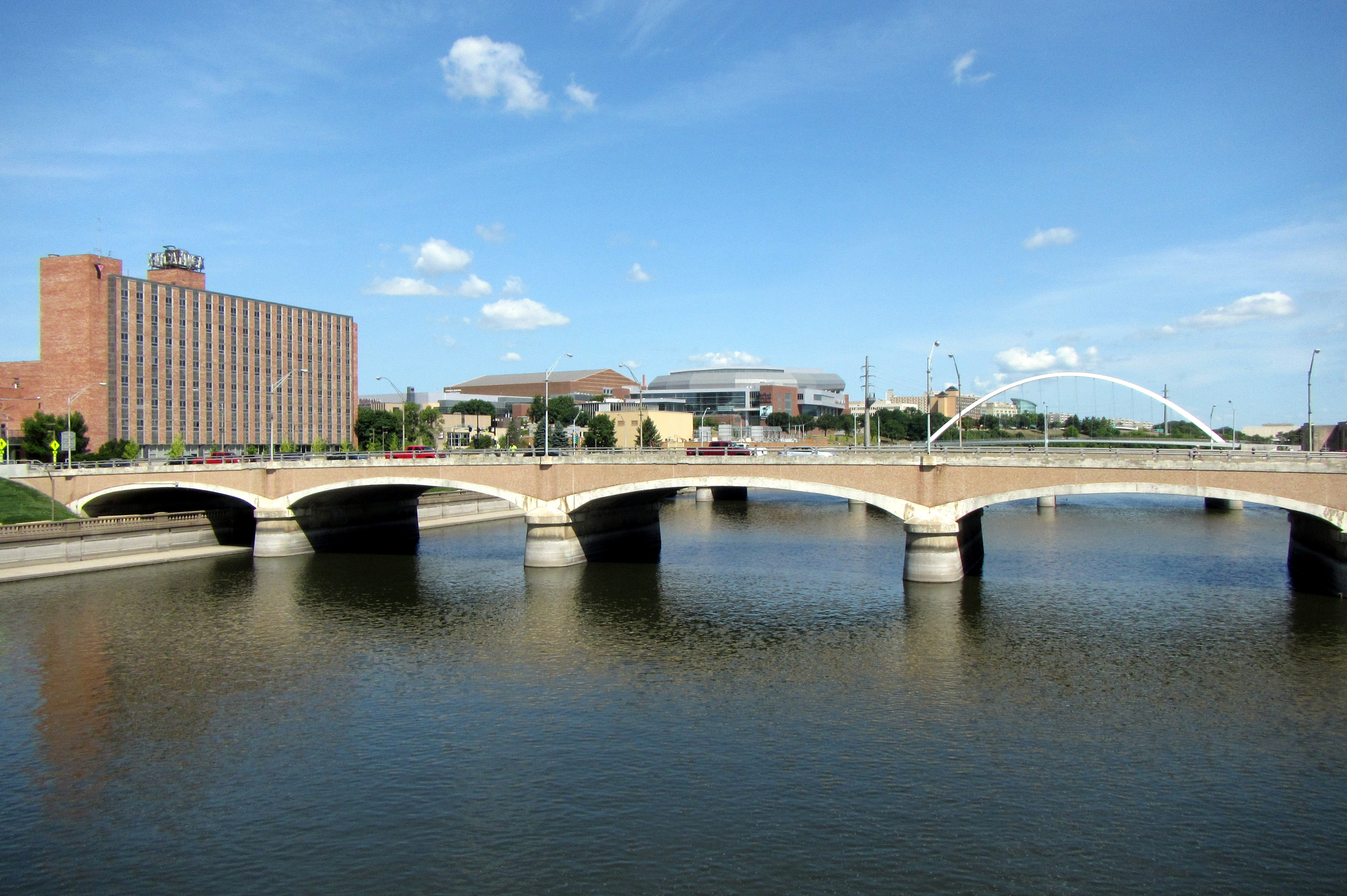 Des Moines River